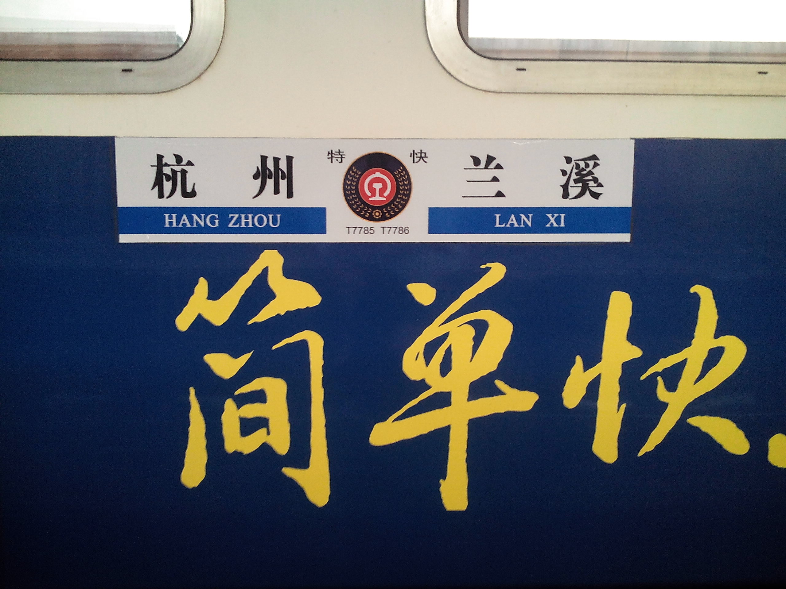 T7785,6 information board 201605